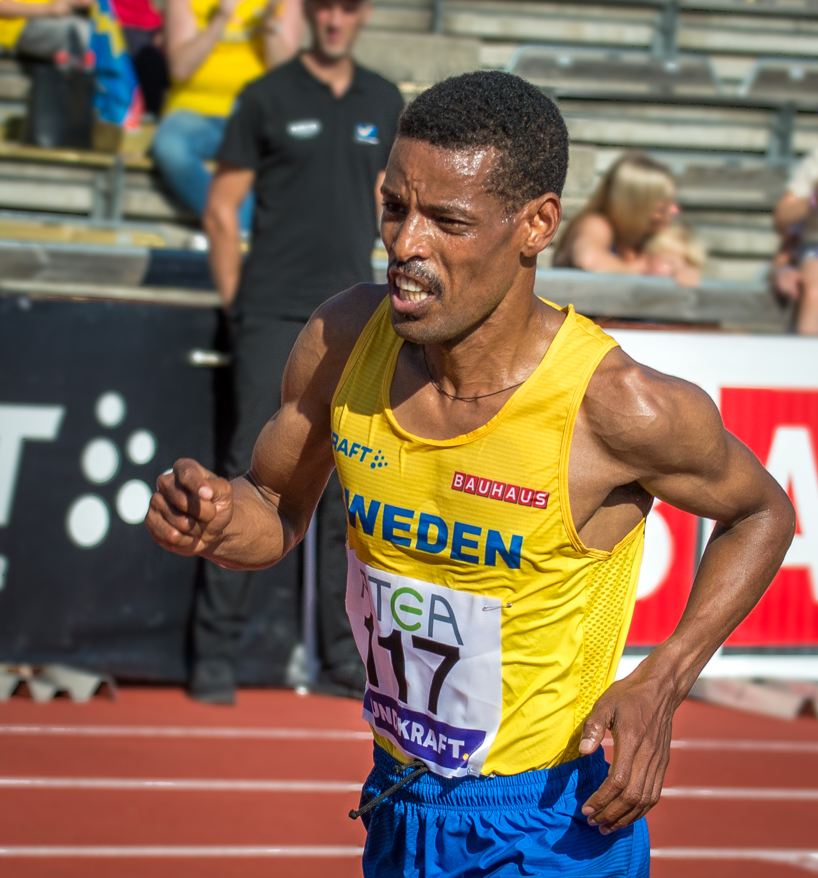 Adhanom Abraha during the Finland-Sweden athletics international 2019 at the Stockholm Stadium in August 2019.